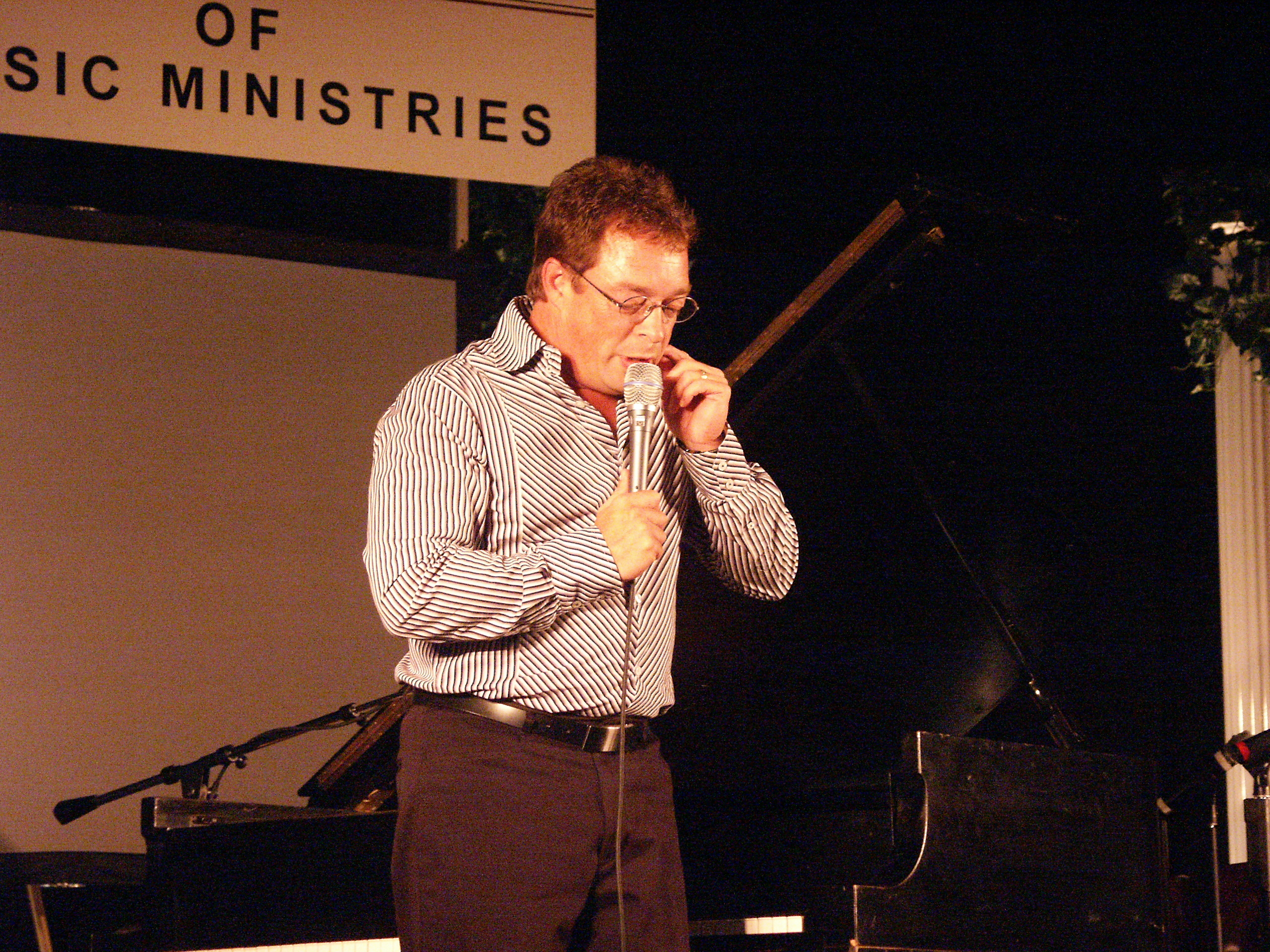 Anthony John Burger on stage at the Steve Hurst School of Music